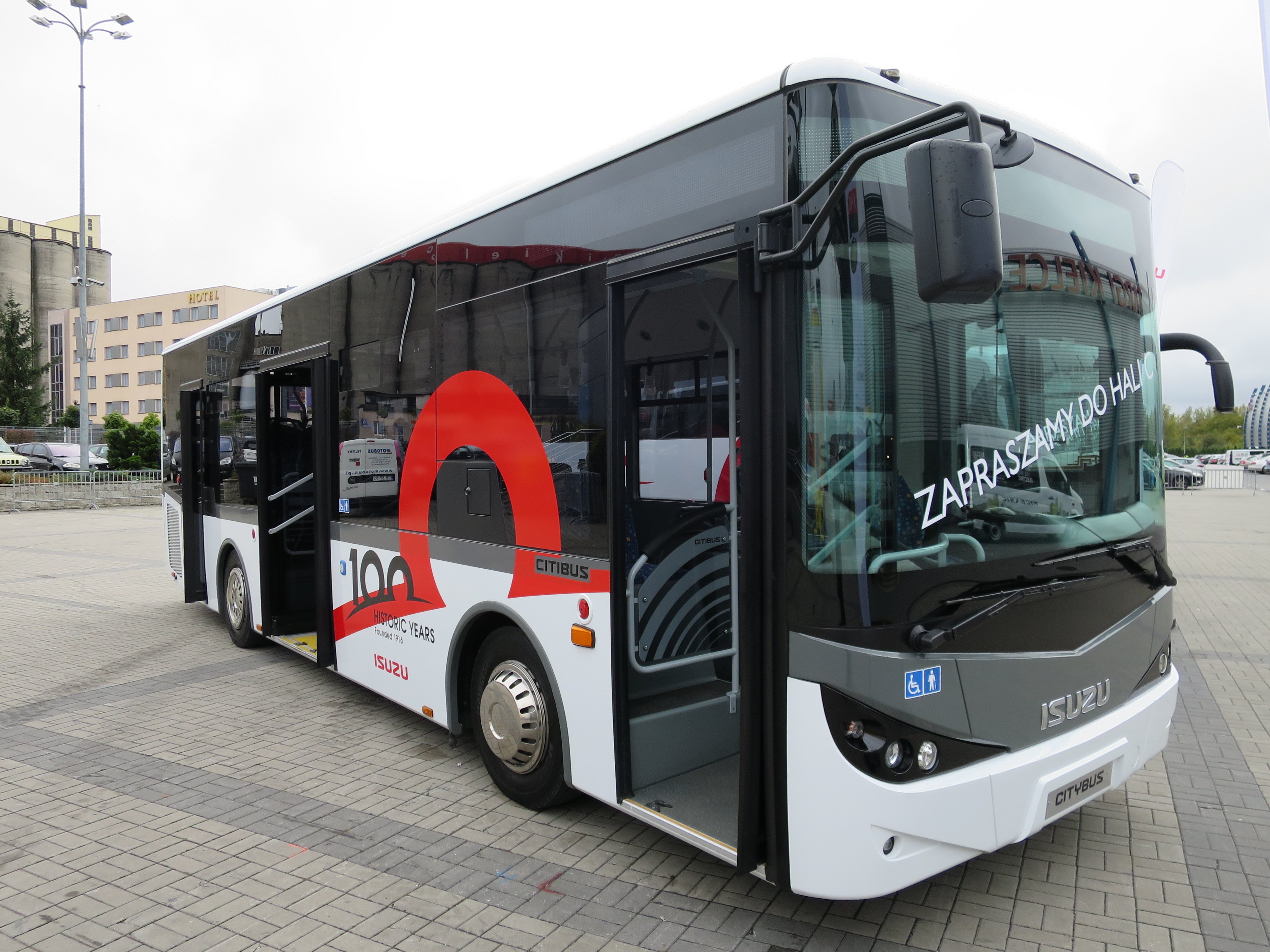 The making of this document was supported by Wikimedia Polska Association, within Wikigrant no. WG 2016-45. ISUZU Citibus